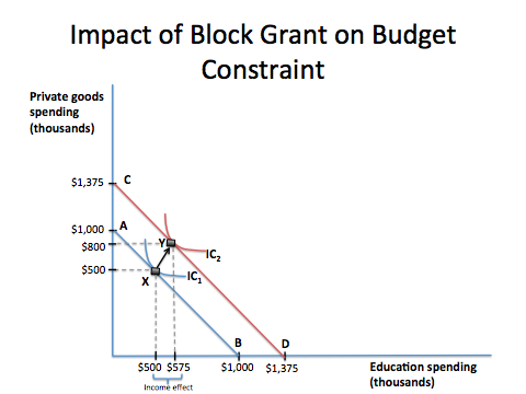 Represents impact of block grant on a town's budget constraint